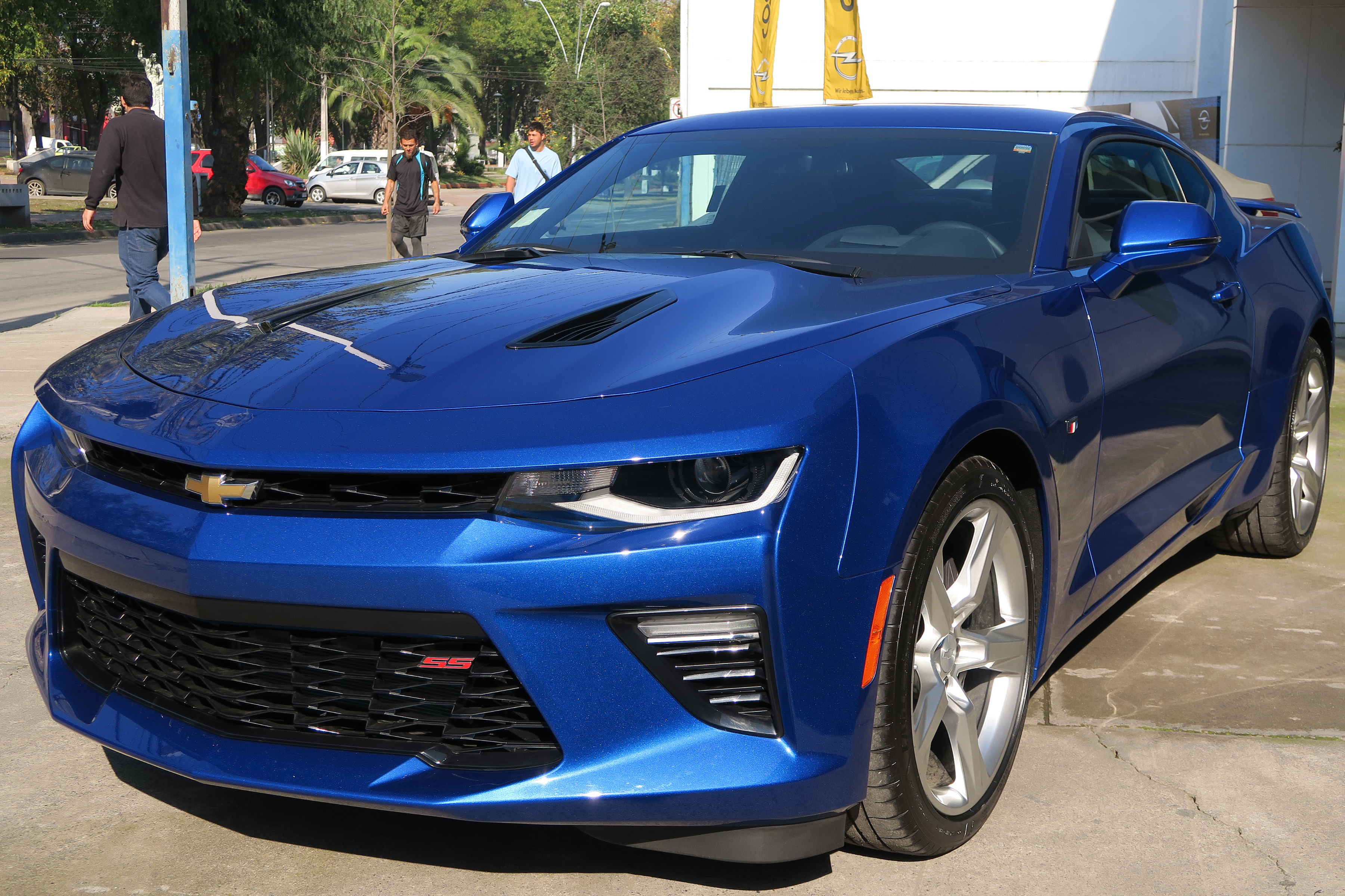 This one took me by surprise, i didn't it was already on sale here